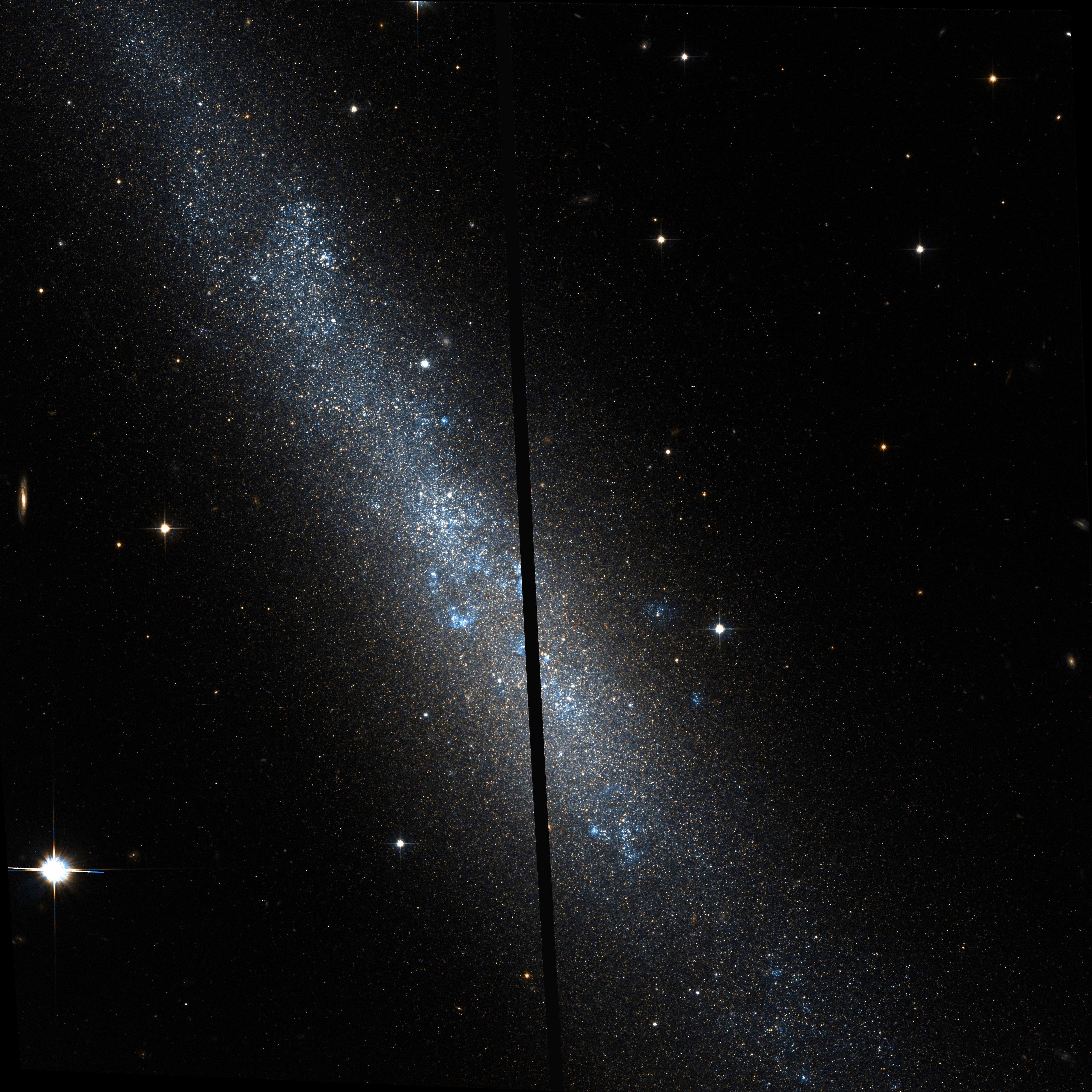 NGC 784 dwarf galaxy by Hubble space telescope